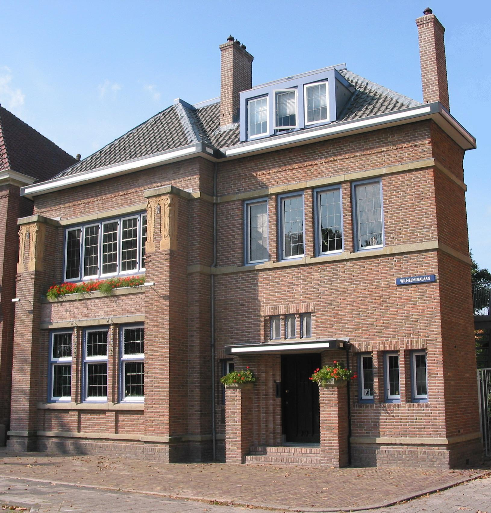 Jan Wils (architect), Willem C. Brouwer (sculptor), Theo van Doesburg (colour and interior designs). Huis J. de Lange, Wilhelminalaan 2, Alkmaar. 1916-1917.